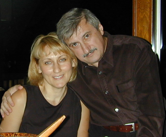 Stepan Pachikov with his wife Svetlana.